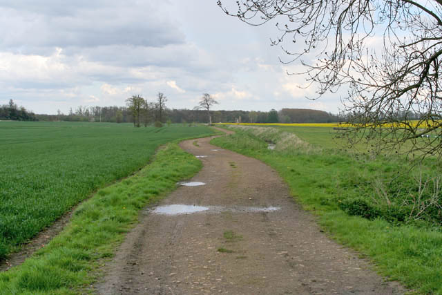 Haverholme Park View from Evedon Wood. Haverholme Park was created in the 19th century to surround the Finch-Hatton's country estate at Haverholme. It is now mainly farmland. The ruins of the old country house and Priory are off to the far left.